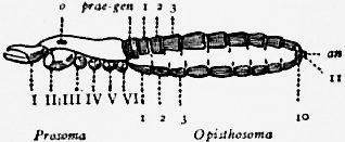 Garypus litoralis, one of the Pseudoscorpiones. Lateral view. I to VI, Basal segments of the six prosomatic appendages. o, Eyes. prae-gen, Tergite of the prae-genital somite. 1, Genital or first opisthosomatic somite. 2, 3, 10, The second, third and tenth somites of the opisthosoma. 11, The minute eleventh somite; an, The anus.(Original.)